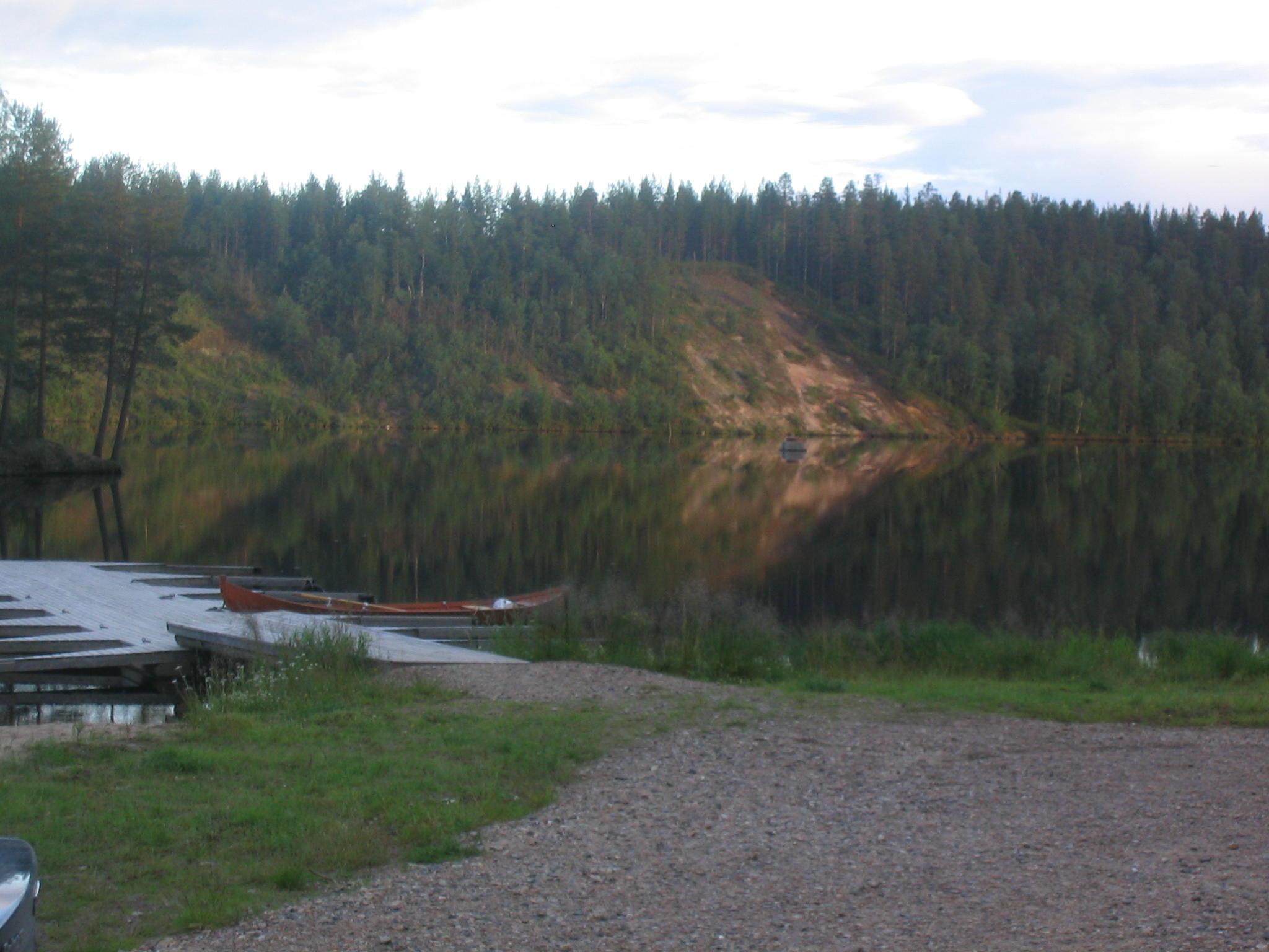 View on the river Kemijoki at Vanttauskoski boat bay.